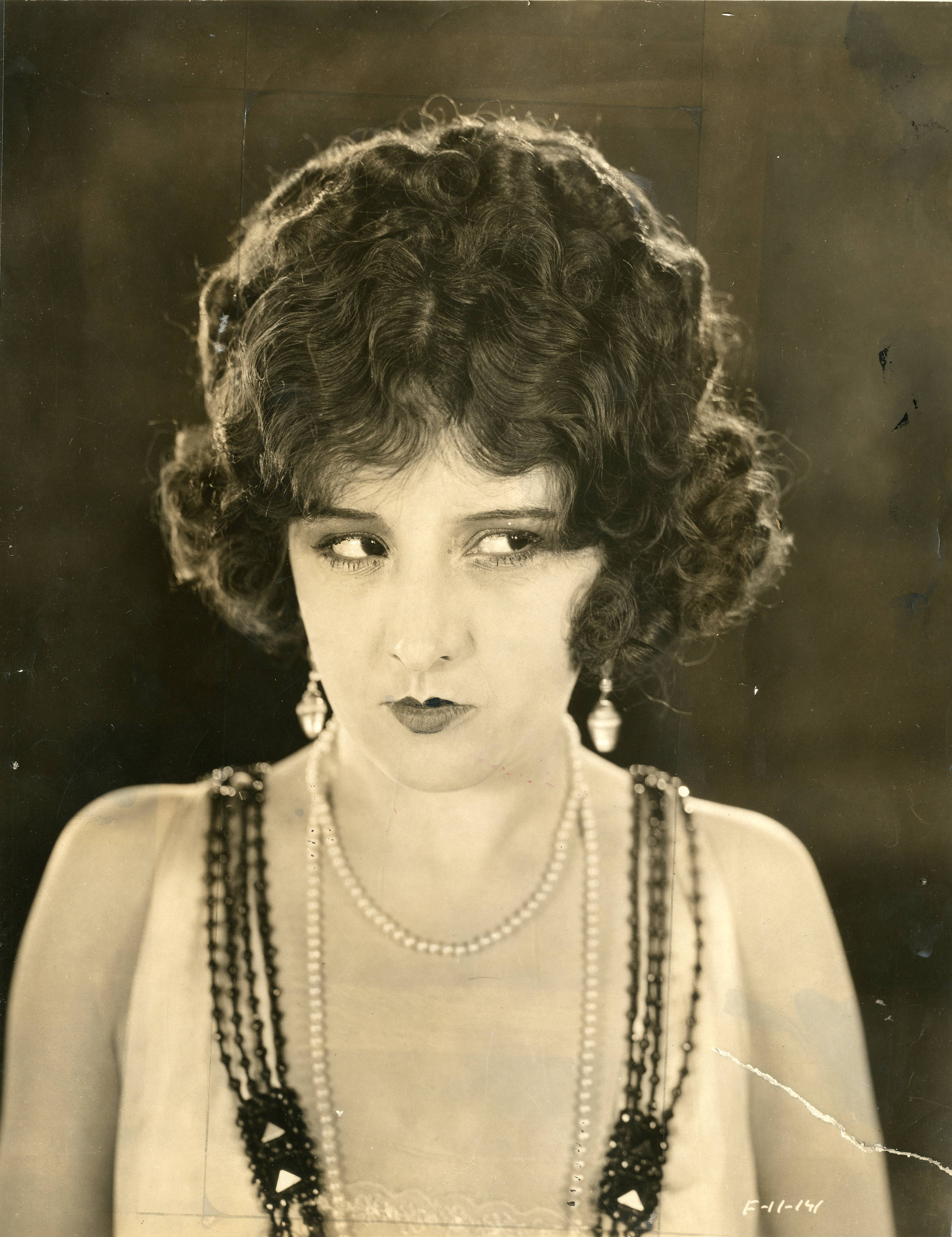 Estelle Taylor, silent film actress, from the American drama film A Fool There Was (1922). Subjects: actresses